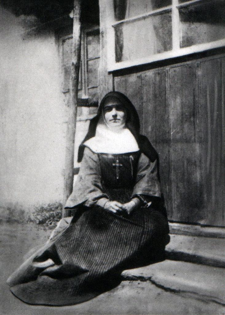 Blessed Josaphat (Mikhailin Gordashevsky), at the end of the nineteenth century. Blessed Nun of the Ukrainian Greek Catholic Church.